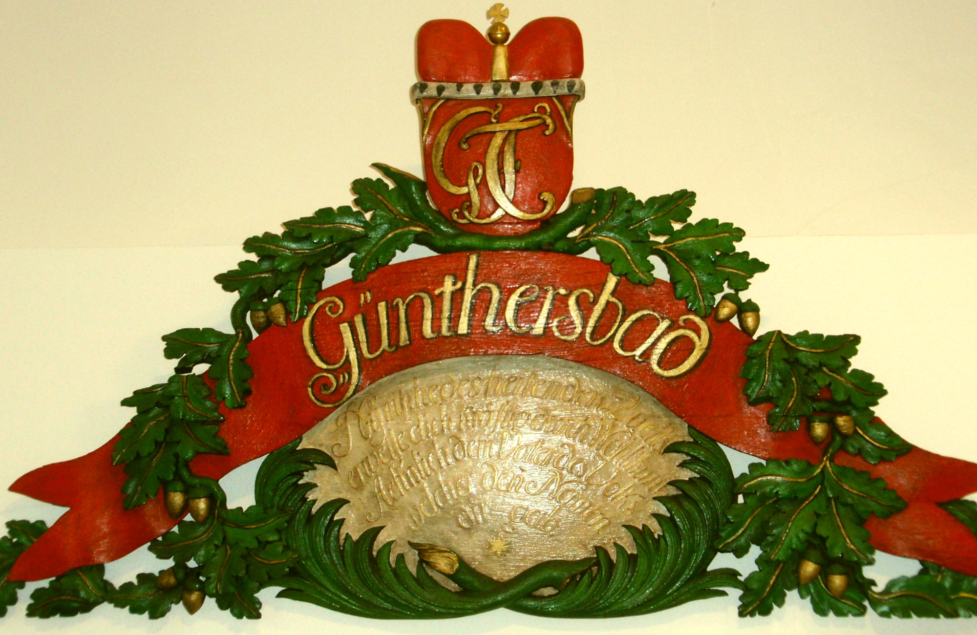 Shield from the Günthersbad in Sondershausen